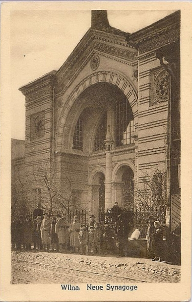 Choral synagogue of Vilnius